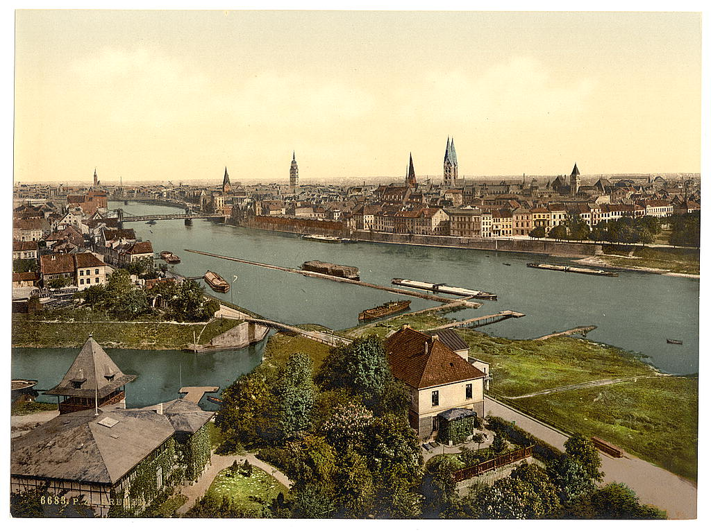 The Free Hanseatic City of Bremen, 1900